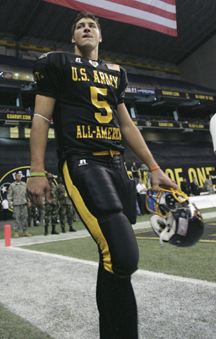 A photo of Tim Tebow at the US Army All-American game